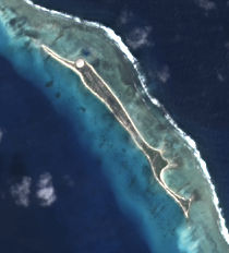 Composite "true color" multispectral satellite image of Enewetak Atoll. NASA Landsat 8 OLI bands used were 4 (red), 3 (green), 2 (blue). Pan-sharpened with band 8. Manual color balance. Projection: UTM (zone 57), WGS84. Imagery courtesy NASA/USGS.